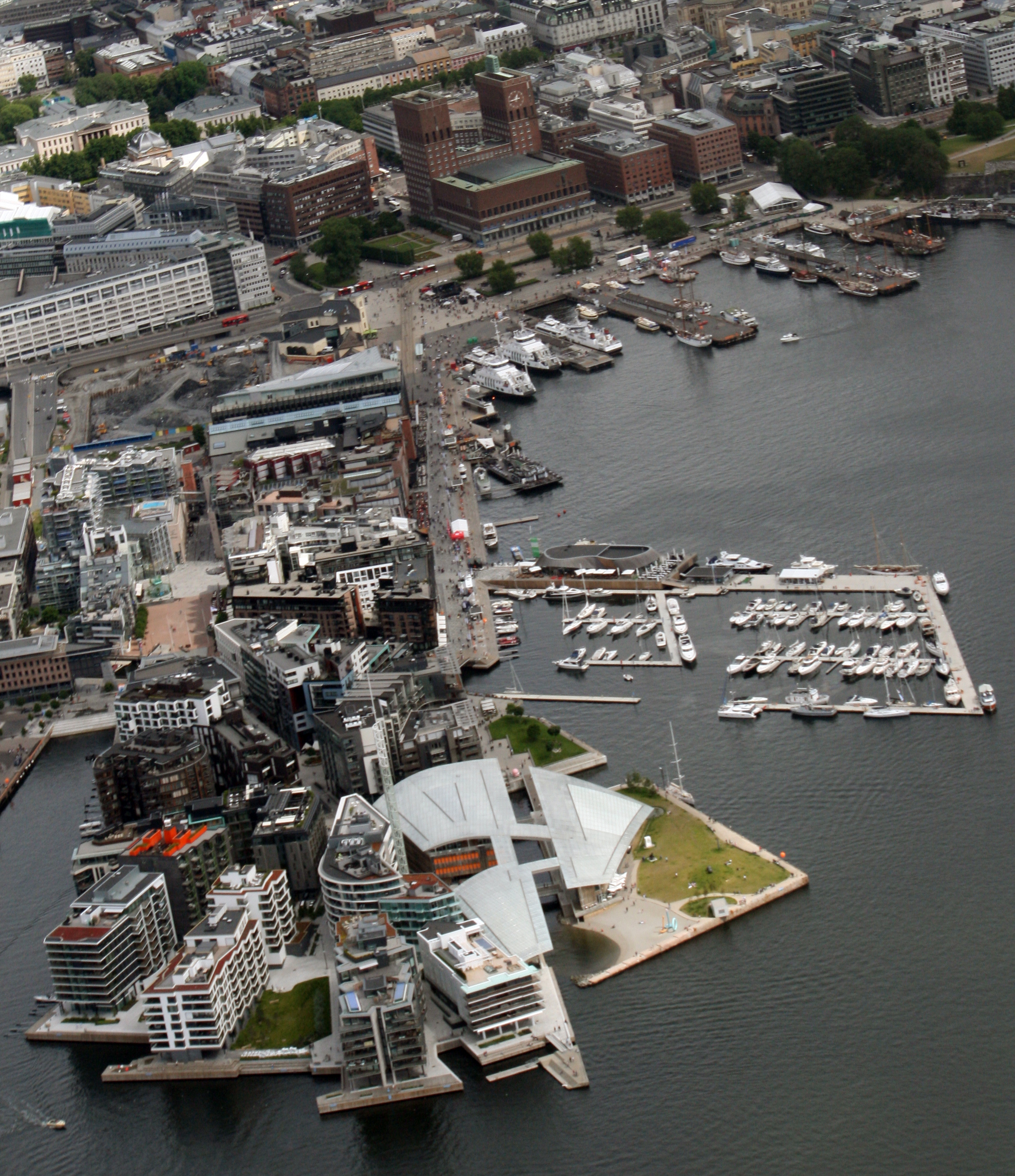 Aerial photograph from June 14th, 2015.